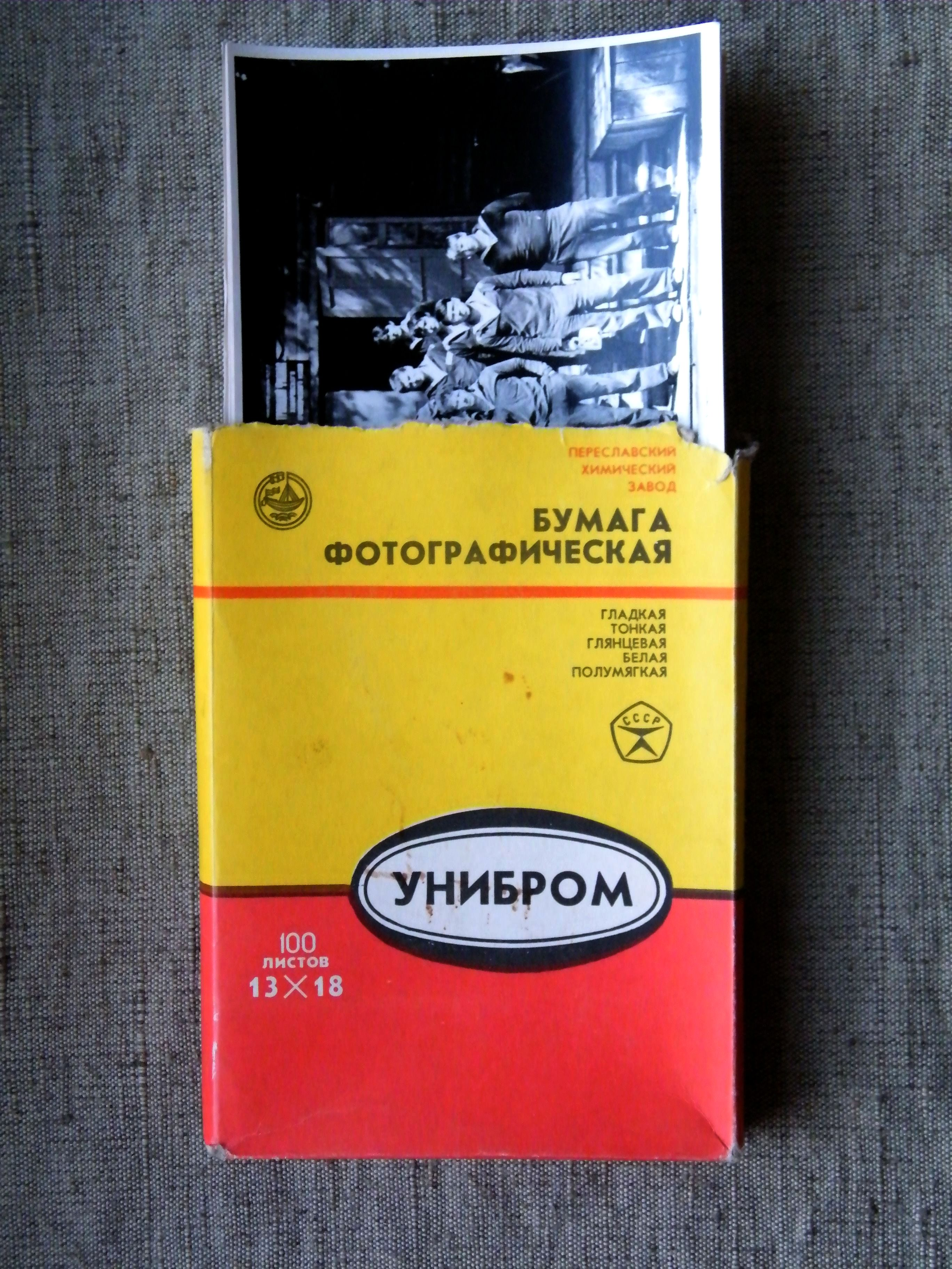 Фотобумага Унибром. Видимую из упаковки фотографию сделал сам, чтоб не вякали про права и лицензии. Те же, что у основного снимка.